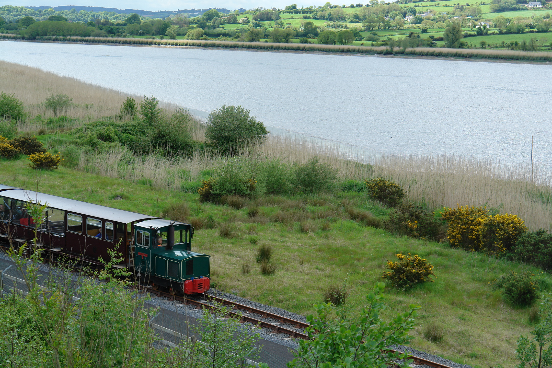 Waterford and Suir Valley Railway